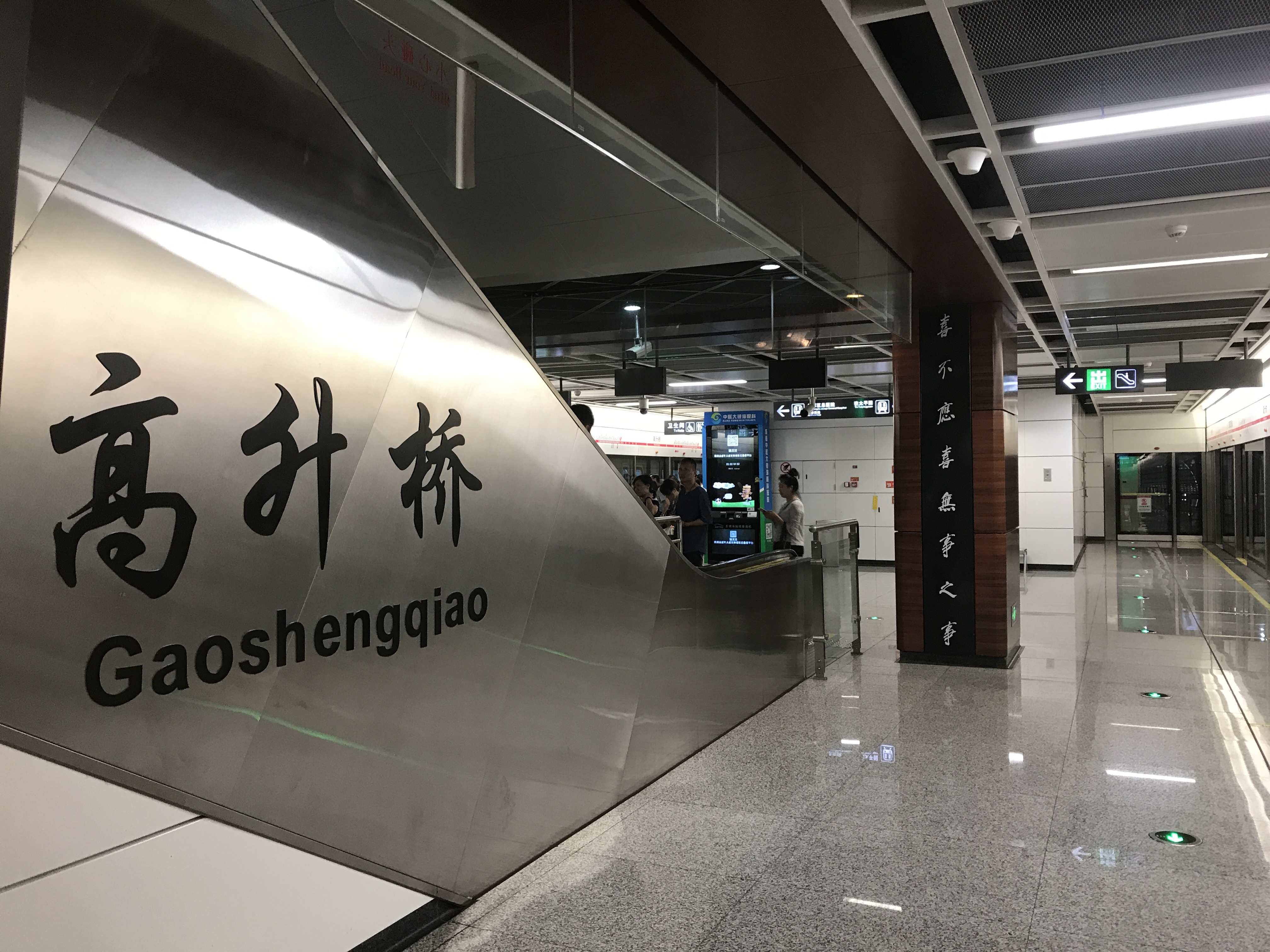 Platform of Gaoshengqiao Station, Chengdu Metro